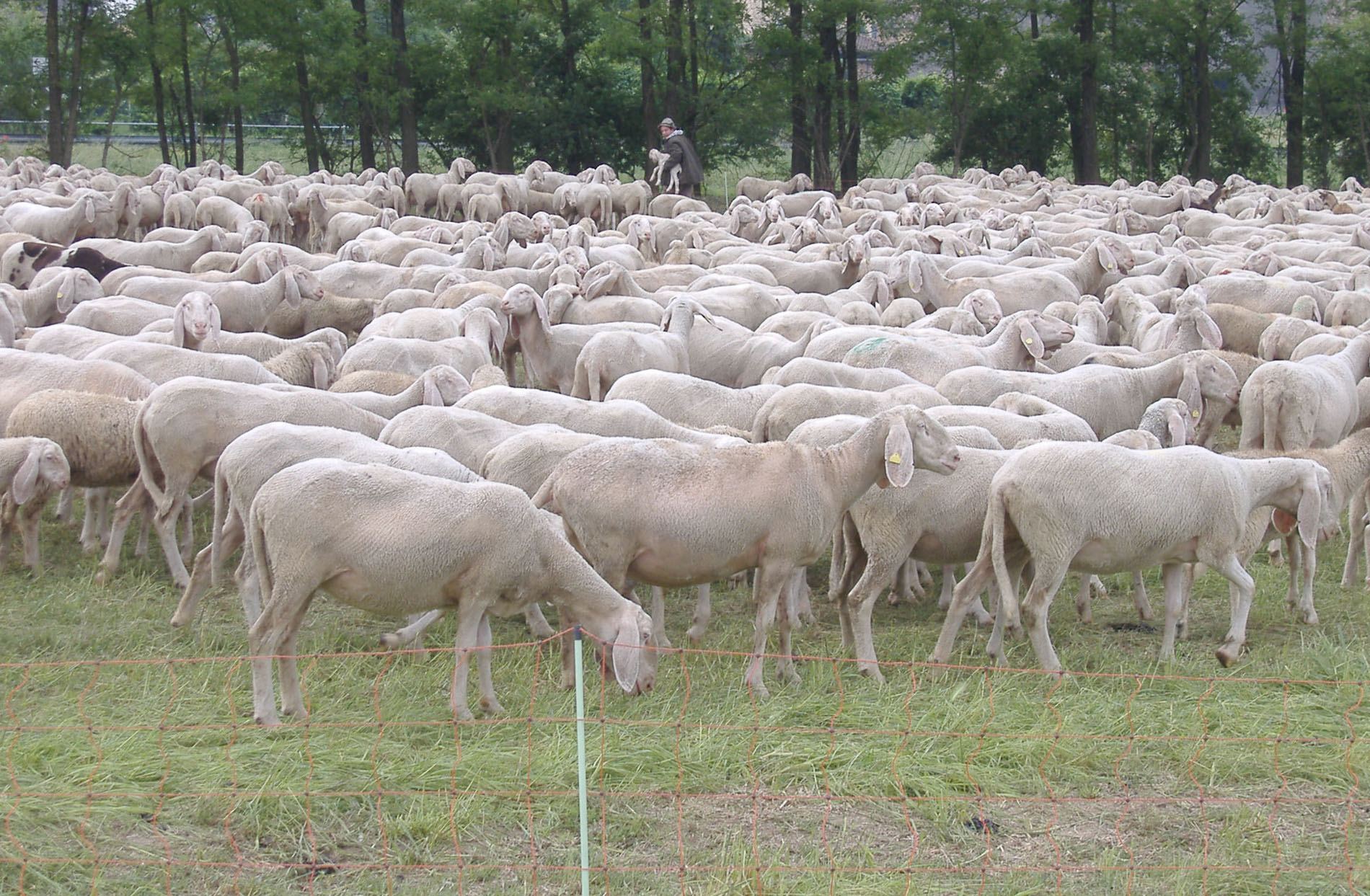 Sheeps in LODI, Italy